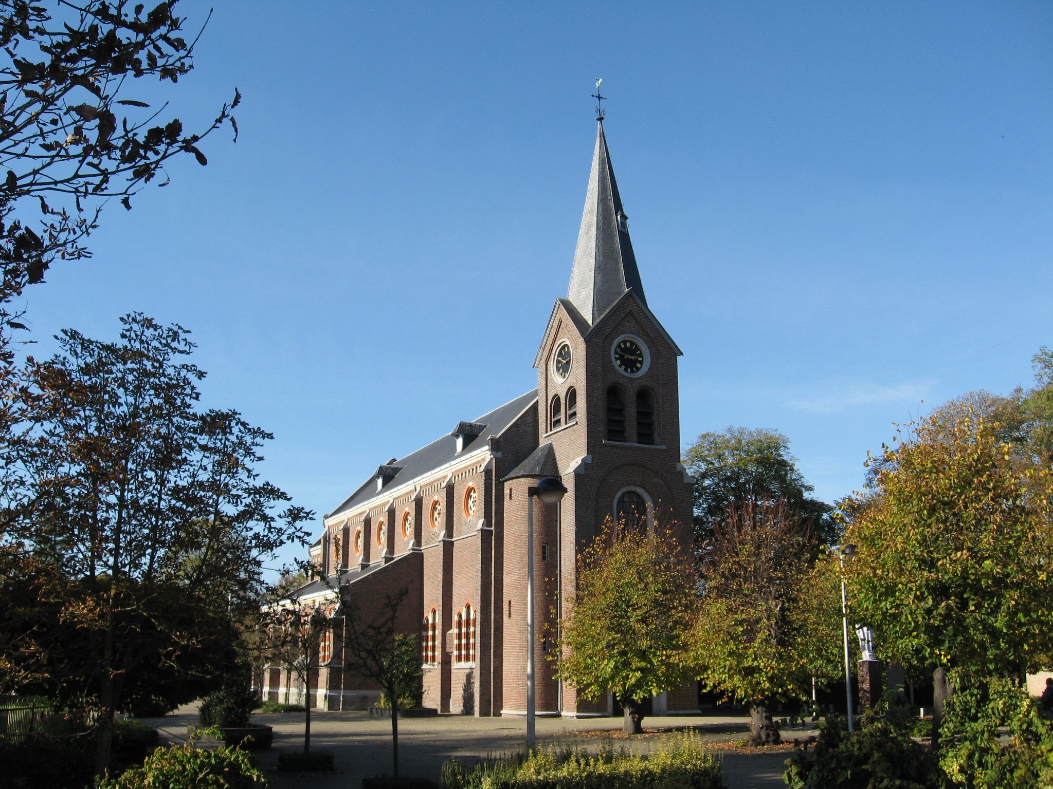 Church of Saint Joseph in Lommel (Kolonie), Limburg, Belgium